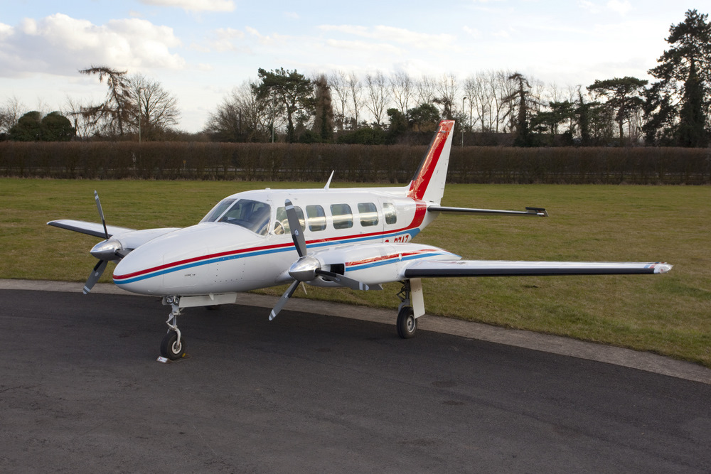 Piper Navajo Chieftain PA31-350 owned by Air Medical Ltd